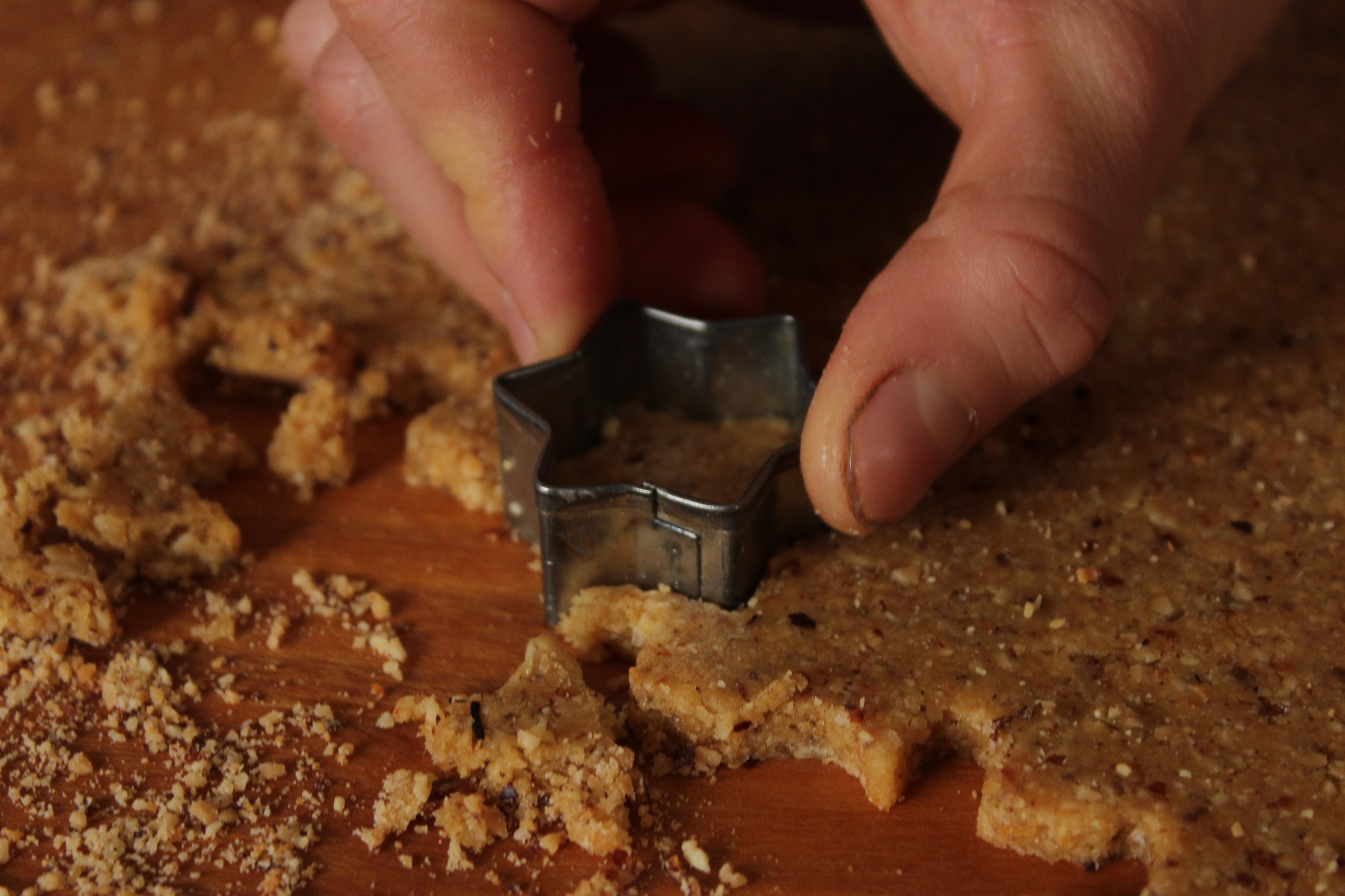 Using cookie cutters to make Christmas cookies.